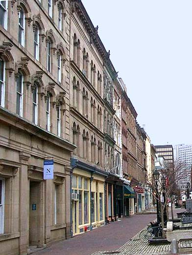 Granville shopping area, NSCAD campus on the left, Halifax, Canada